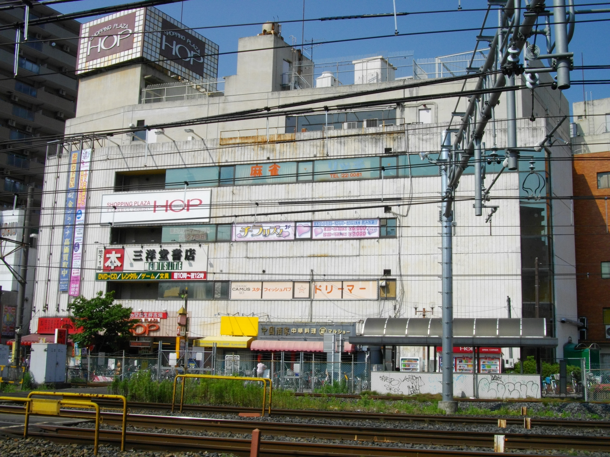 Shopping Plaza HOP Building